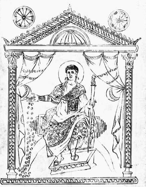 Roman Emperor Constantius II, drawing from Chronographer of 354 (Vat. Cod. Barber. XXXI, 39, fol. 13).